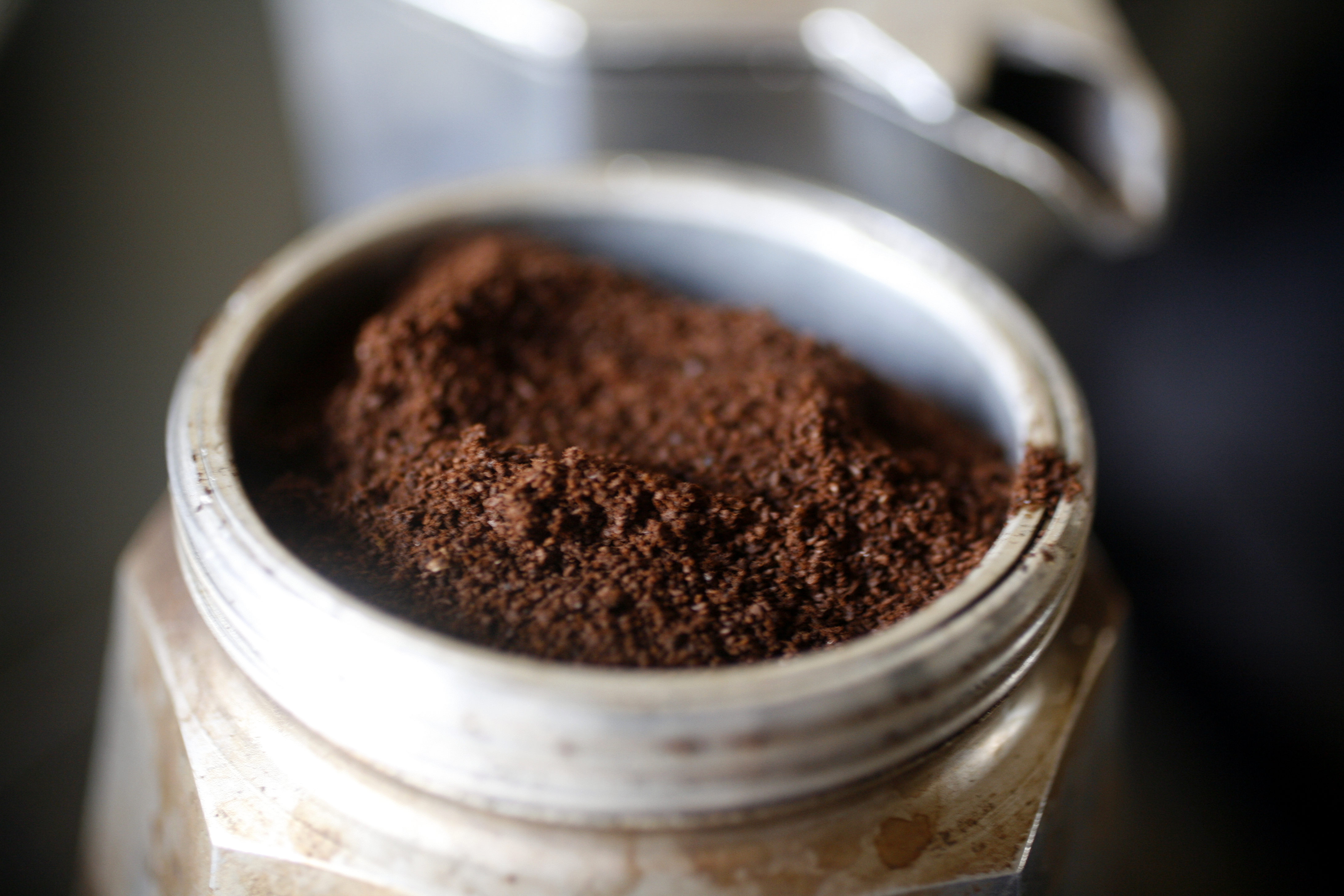 Moka Express being loaded with coffee